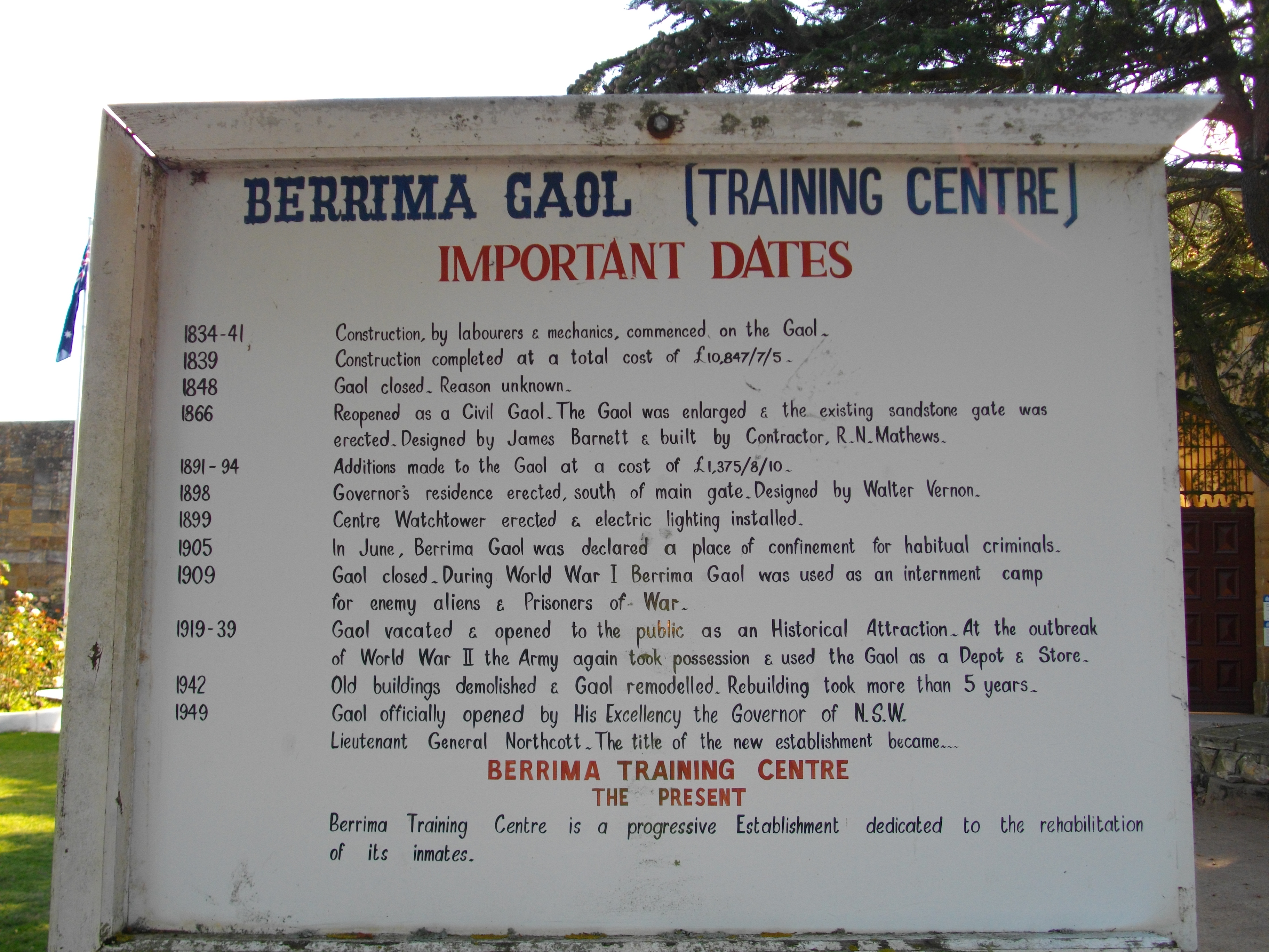 A notice posted outside Berrima Gaol containing a historical timeline and identifying the building's present role (2009) as a Training Centre "dedicated to the rehabilitaion of its inmates".